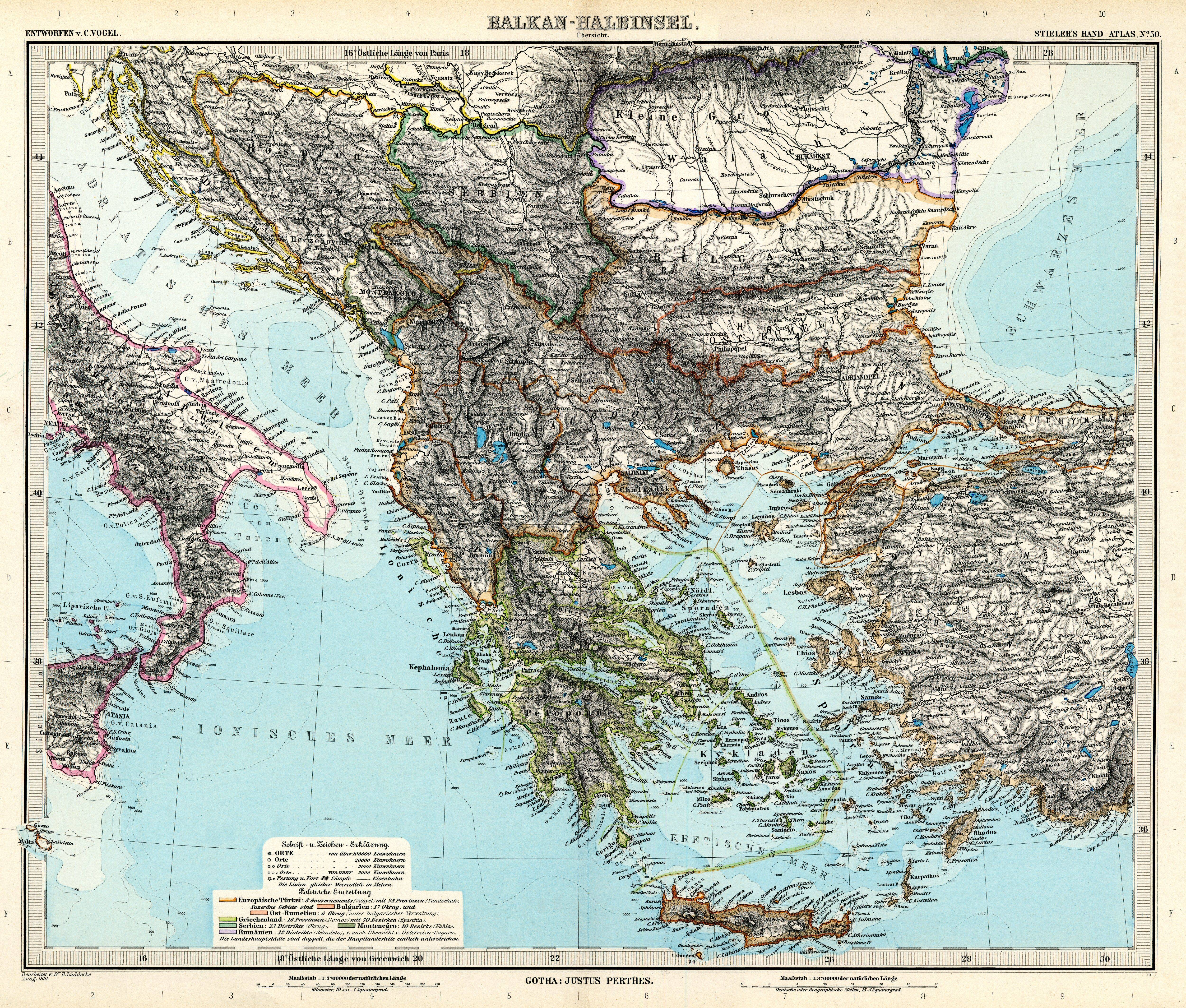 Balkan peninsula. Overview